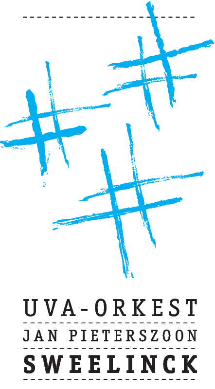 This is the Logo of the orchestra of the University of Amsterdam